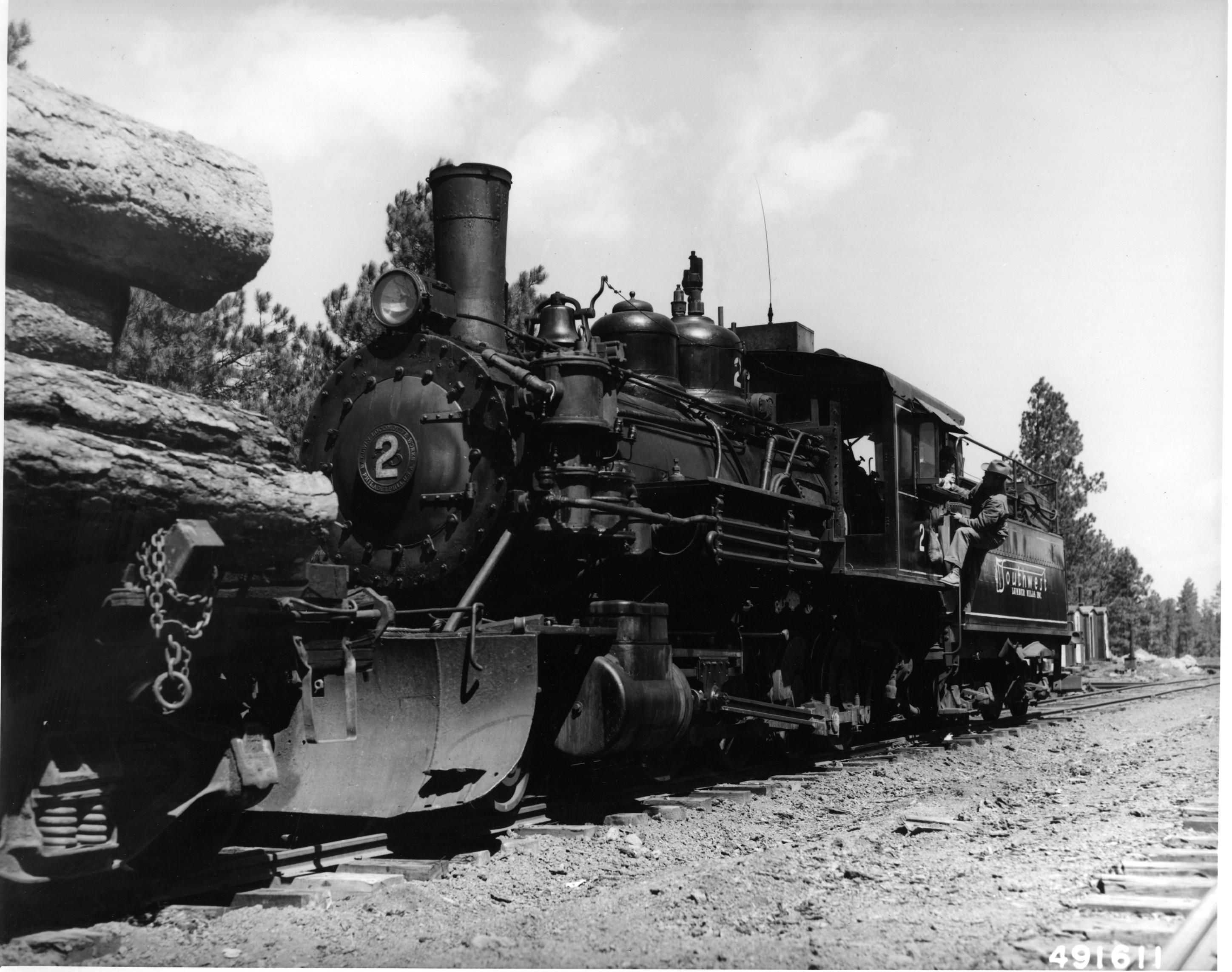 A ranger talks to the engineer of a Southwest Lumber Mills steam locomotive. Photo taken in 1959 by B. W. Muir. Credit: USDA Forest Service, Coconino National Forest